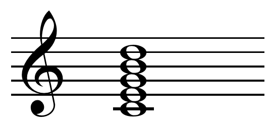 Major ninth chord on C. Created by Hyacinth (talk) 10:30, 29 May 2011 (UTC) using Sibelius 5. See: File:Major_ninth_chord_on_C.mid